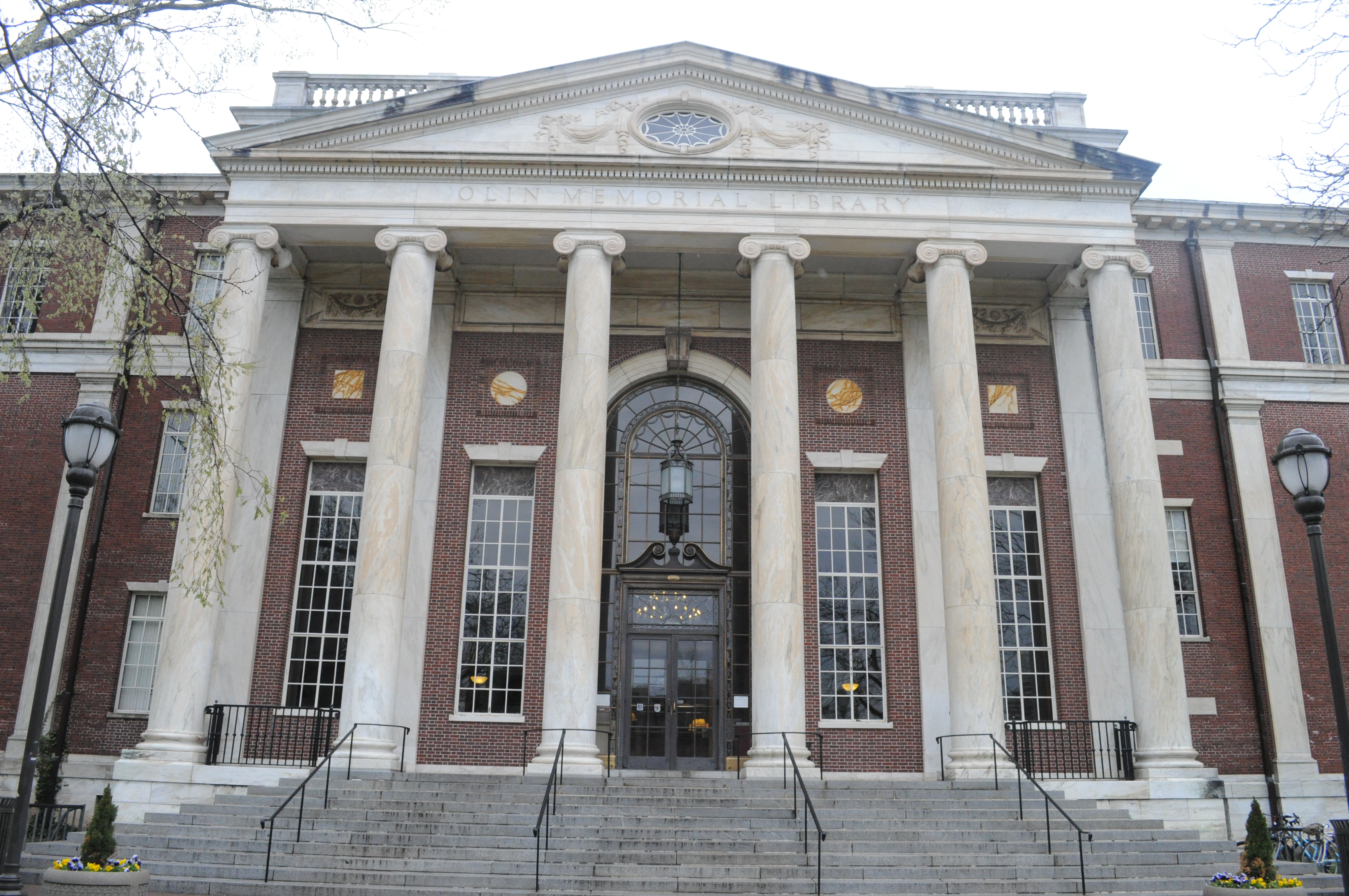 Olin Library, Wesleyan University, Middletown, Connecticut, USA.